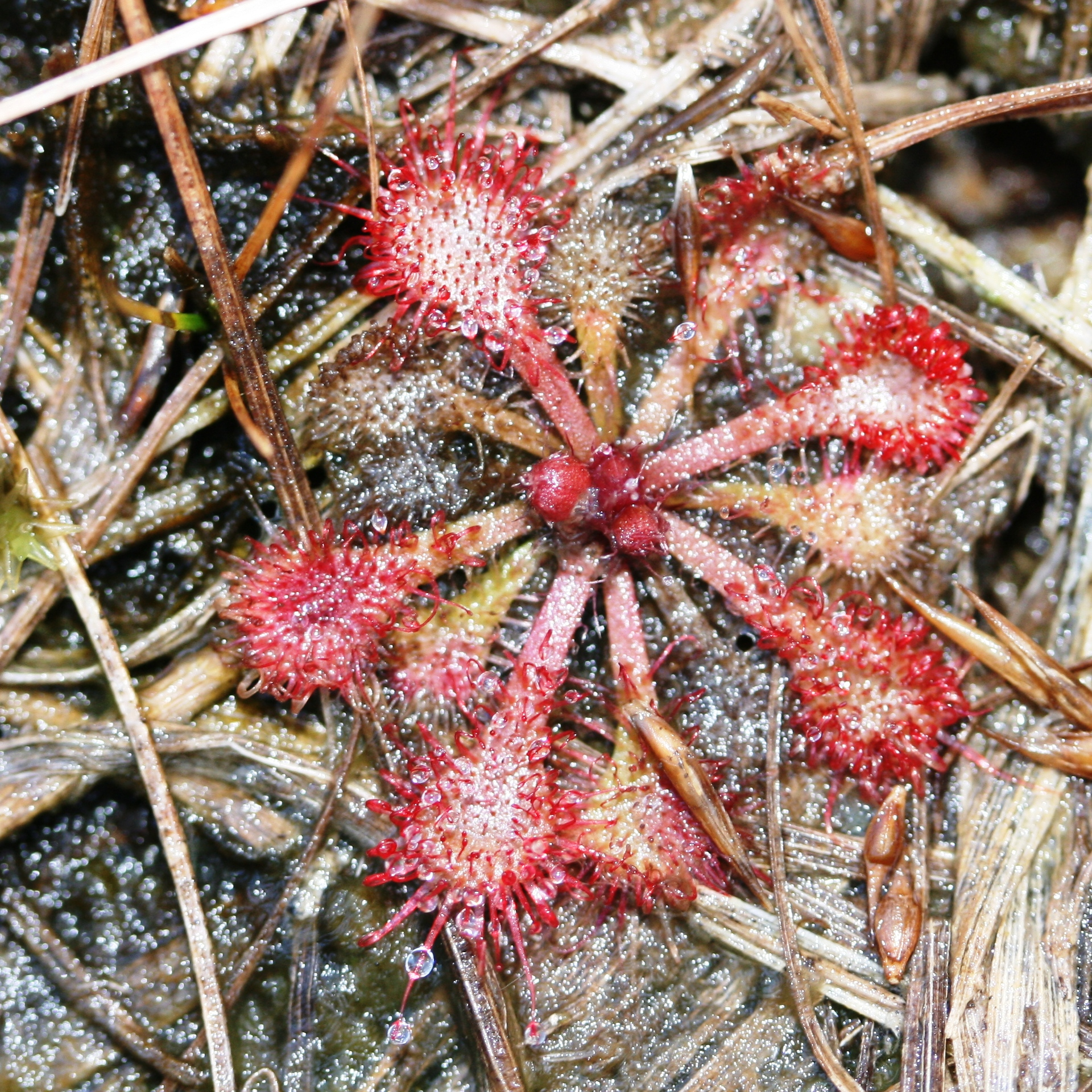 Drosera tokaiensis in Kaisho Forest